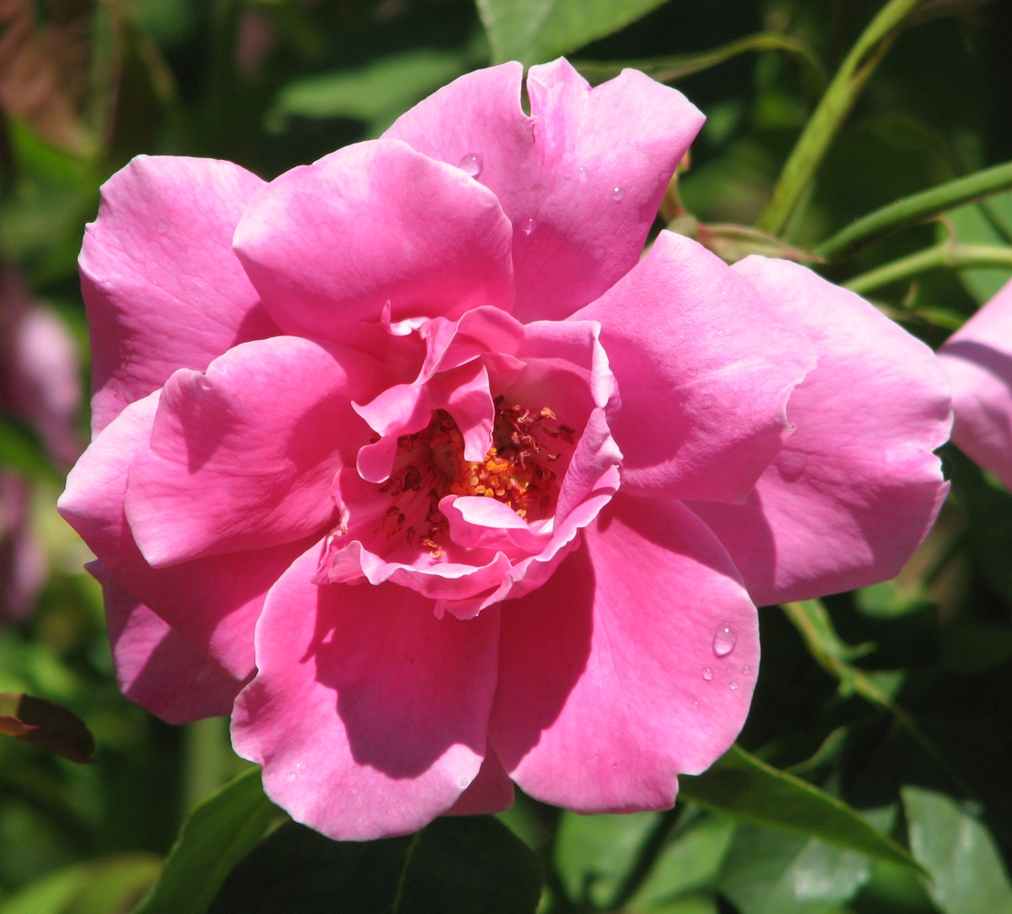 Rosa 'Mrs Fred Danks', Geelong Botanic Gardens, Victoria, Australia